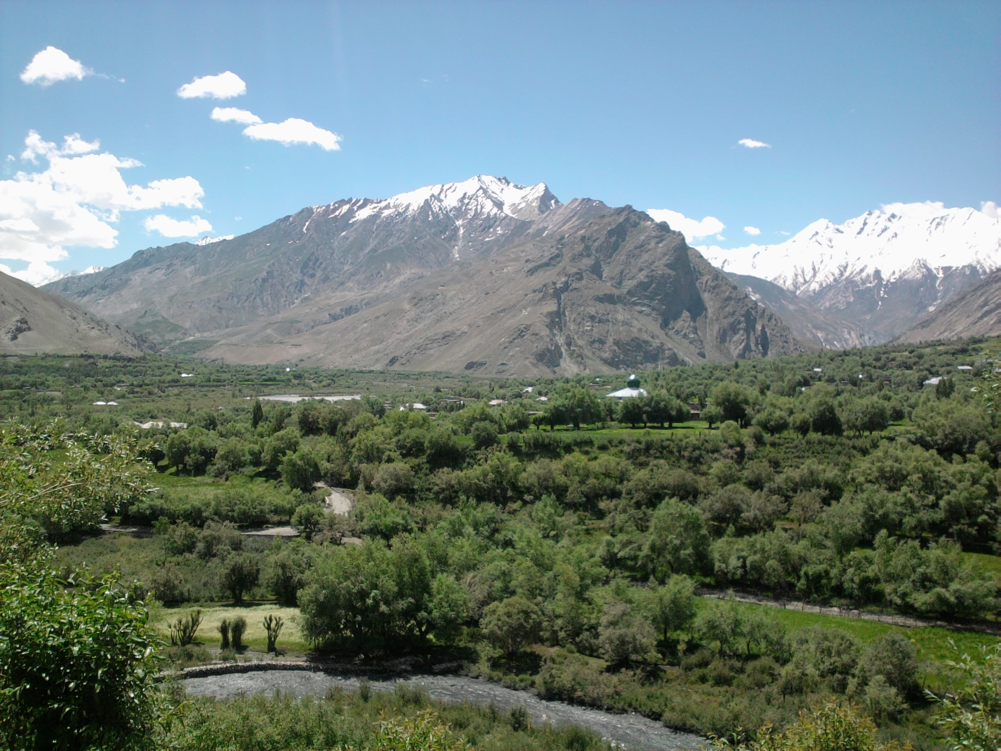 a breathtaking image of Sankoo village in Suru valley